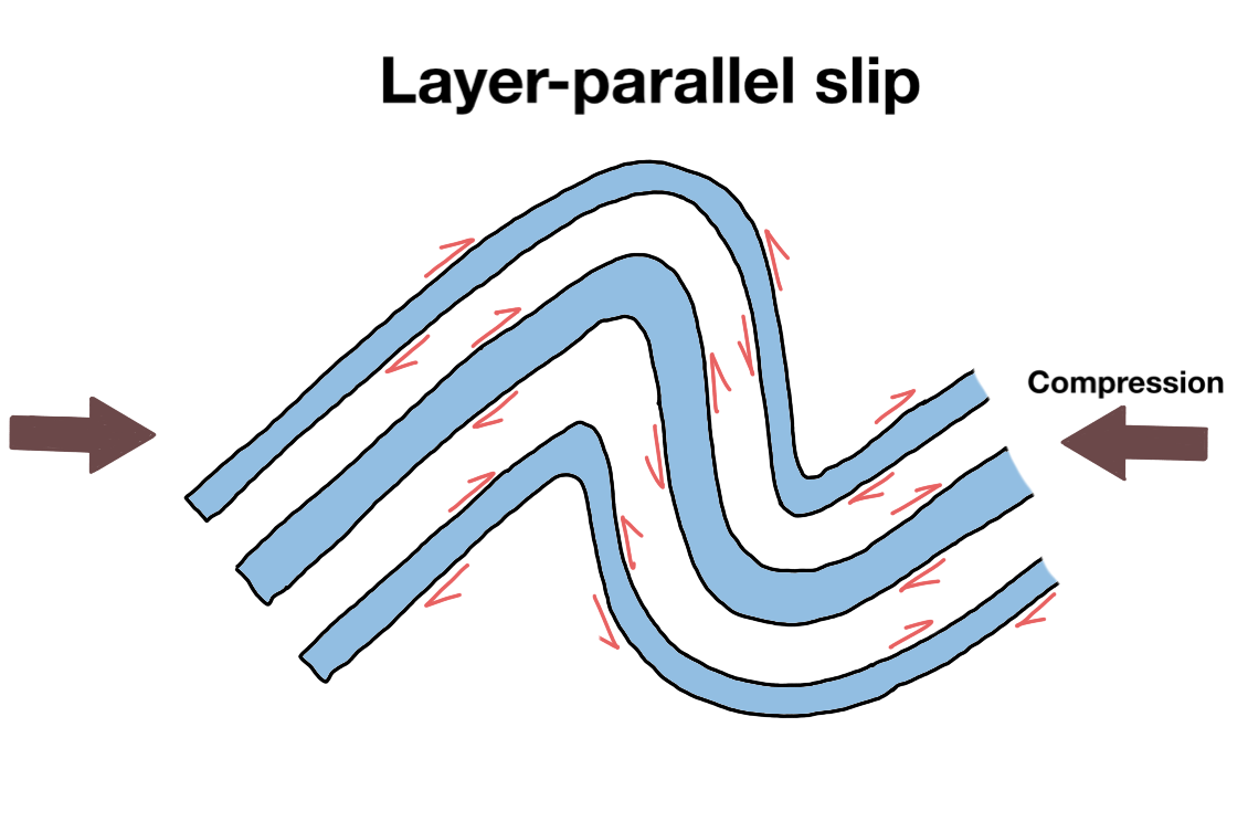 Flexural slip in compressional setting can generate layer-parallel slip.